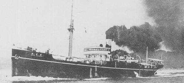 Japanexe freighter OHA-MARU on test run. she was bought by IJN in 1944 and renamed to KURASAKI, then used as suppply ship.